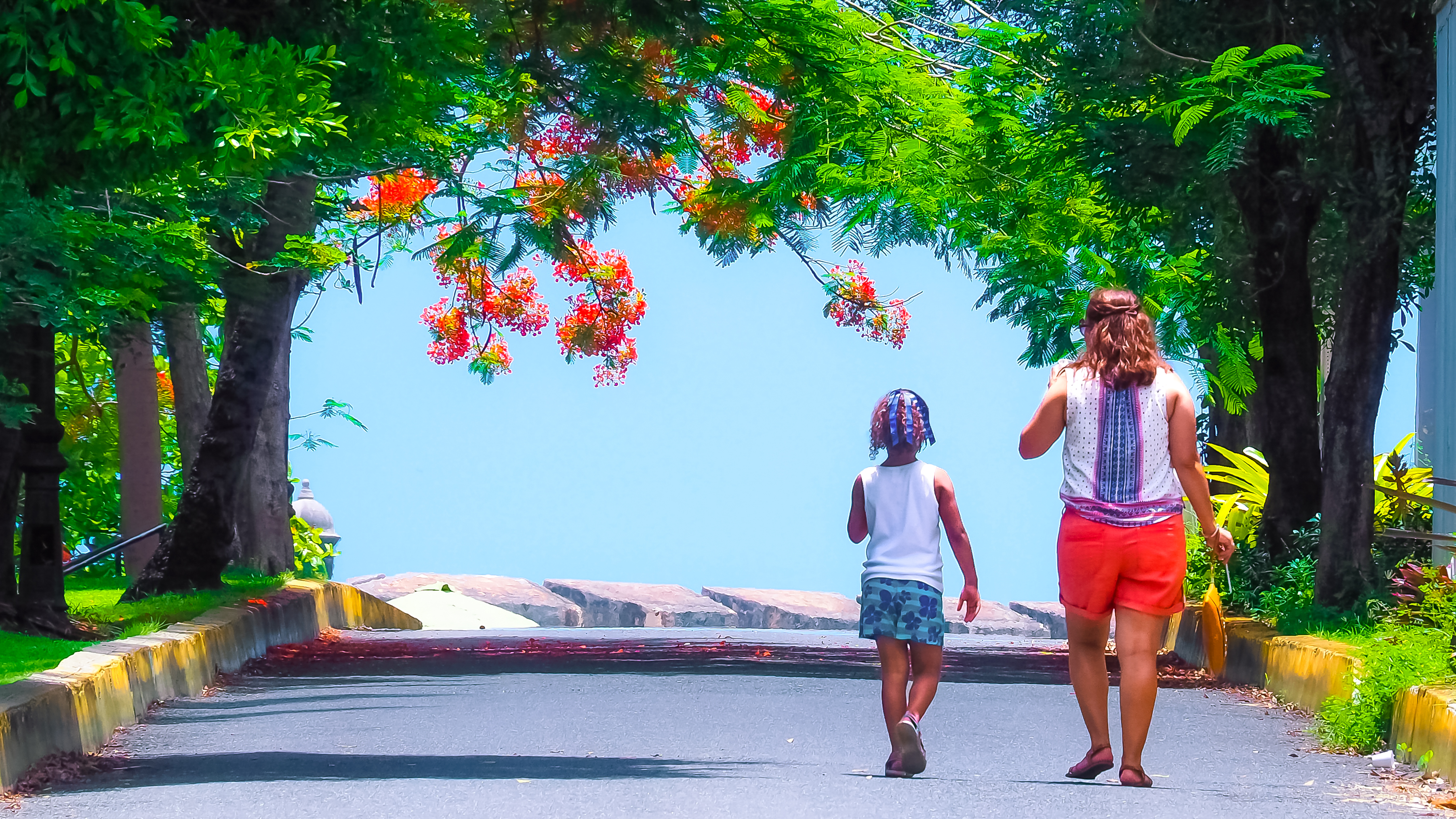 People walking in Caleta De Las Monjas